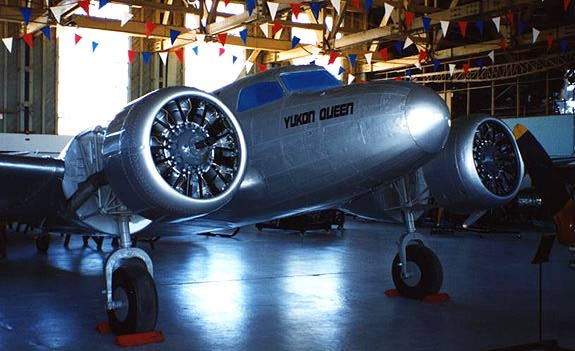 T8P-1 CF-BLV Yukon Queen preserved at the Alberta Aviation Museum in Edmonton